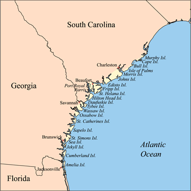 This is a map of the Sea Islands Watershed I made using Census Bureau data.